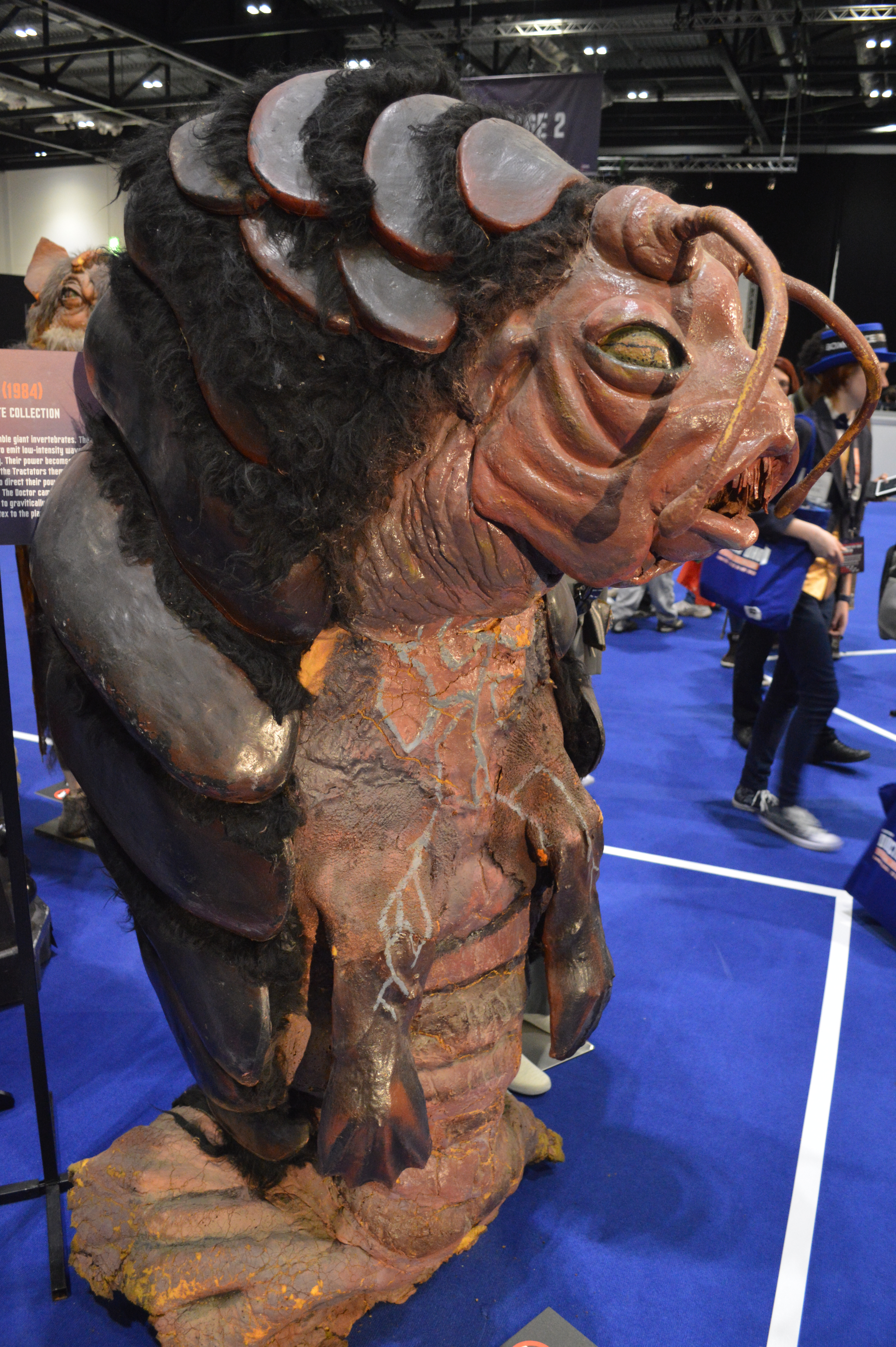 From the 1984 story "Frontios" Doctor Who Experience